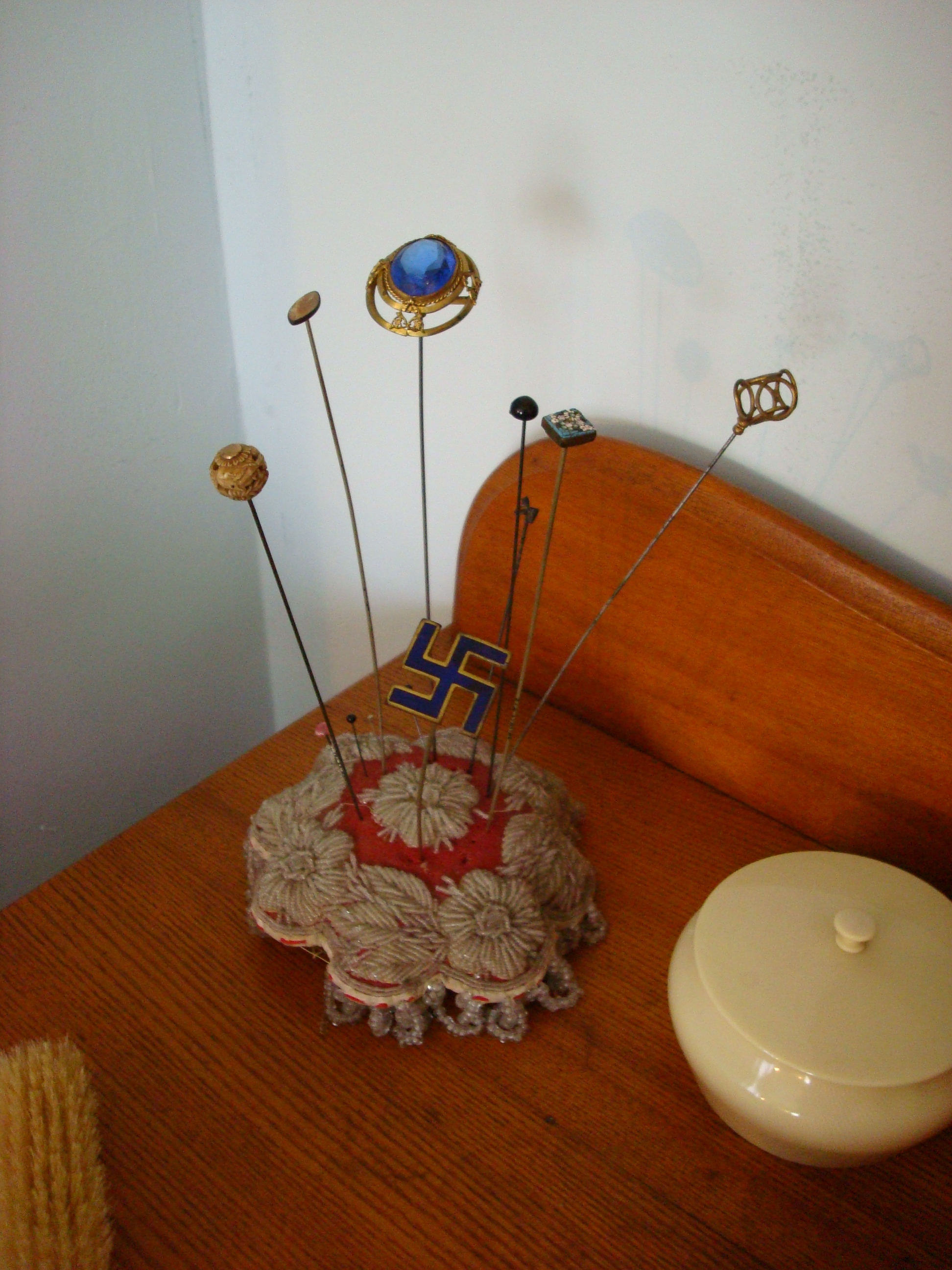 Hatpins in a pincushion at Mann House